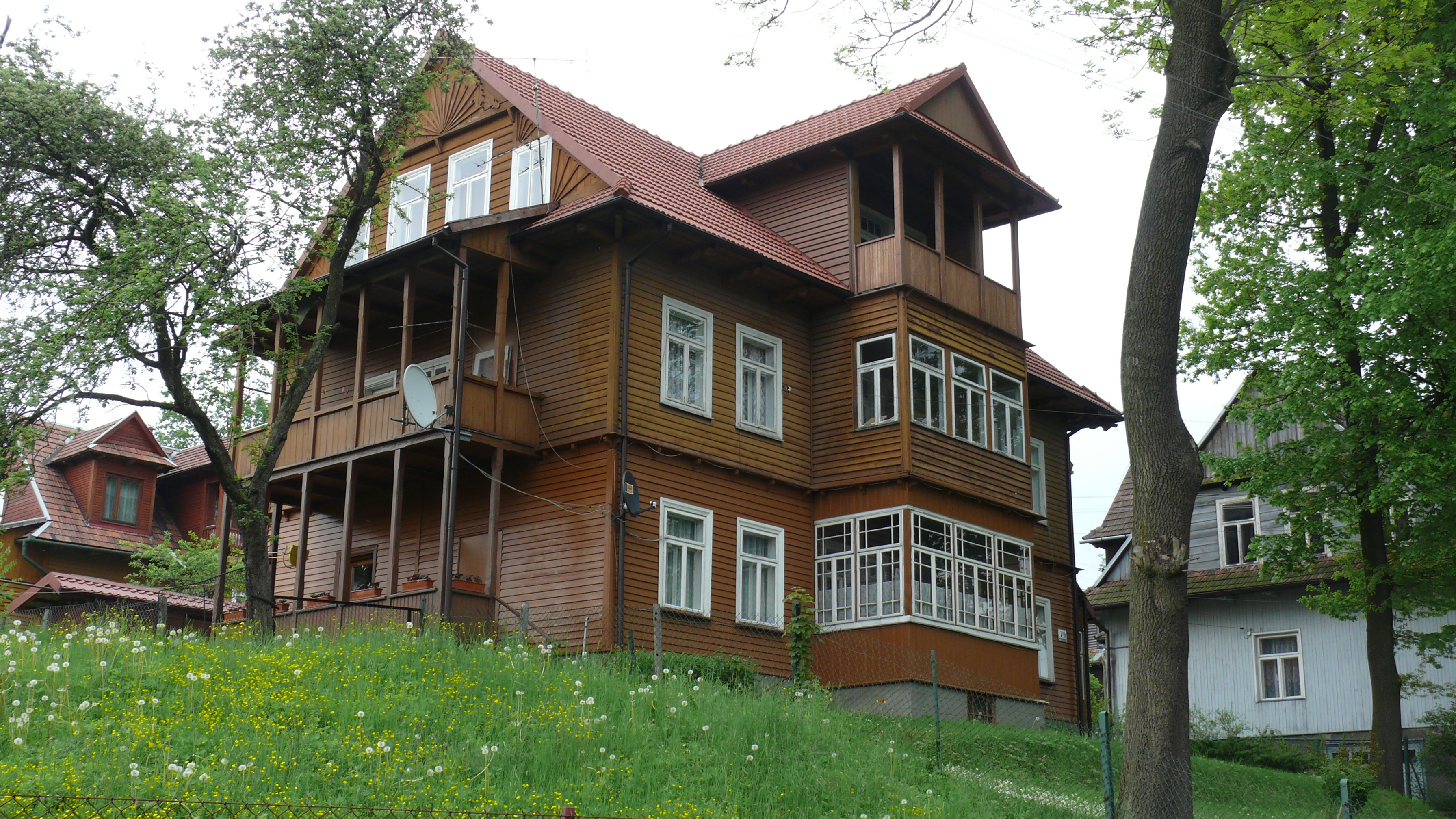 Old wooden house (before 1945) in Rabka Zdrój (Poland)